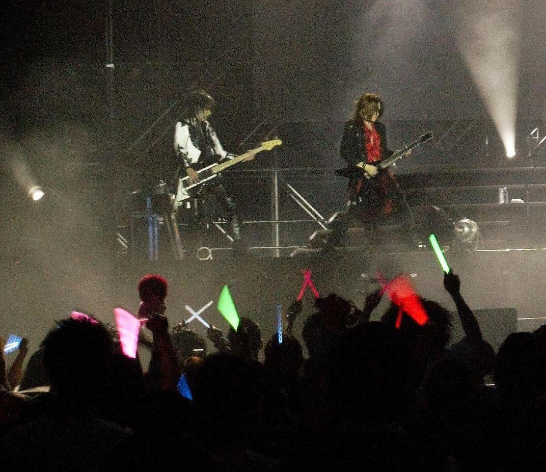 A cropped version of an image of Heath and Sugizo performing with X Japan in Hong Kong on January 16, 2009, so as to better fit the Infobox musical artist template on Wikipedia.